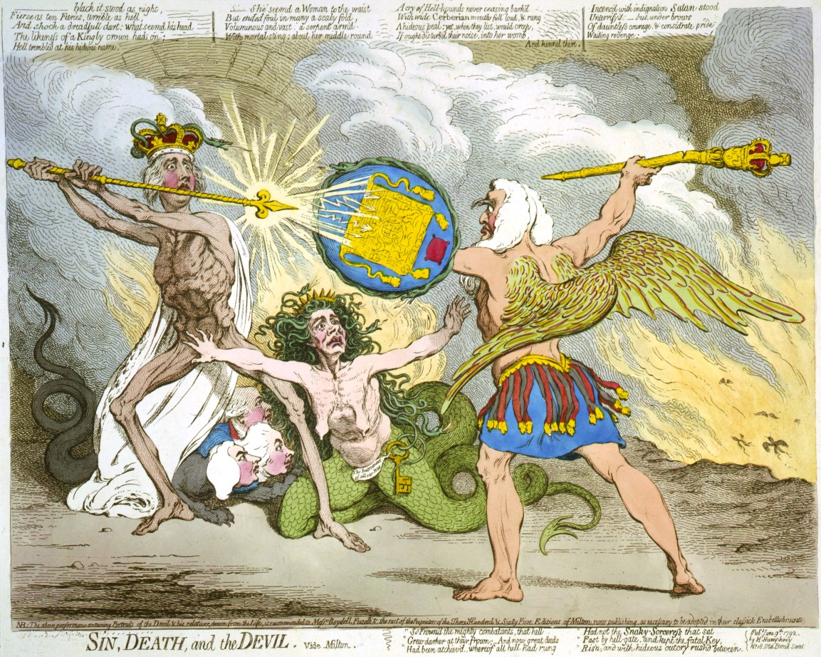 Sin, Death, and the Devil - vide Milton SUMMARY: A satire on the struggle between Pitt and Thurlow travestied as a scene from Paradise Lost. Pitt is Death, wearing only the king's crown. Thurlow is Satan. The Queen is Sin, naked, with two writhing serpents for legs, attempting to protect Pitt. MEDIUM: 1 print : etching, hand-colored. CREATED/PUBLISHED: [London] : Pubd. by H. Humphrey, 1792 June 9th. According to Wright & Evans, Historical and Descriptive Account of the Caricatures of James Gillray (1851, OCLC 59510372), p. 48, "On the quarrel between Pitt and Thurlow, which ended in the dismissal of the latter from the Chancellorship. It was said that the Queen's influence at this time kept Pitt in power, the King hesitating for some time between his attachment to Thurlow and his sense of the value of Pitt's services. Pitt, in the character of Death, shelters himself under the Crown, and combats with the Sceptre. Satan's weapon, the Chancellor's mace, is breaking in the struggle. The hell hounds bear the visages of Dundas, Grenvill, &c. This is without doubt one of the boldest pictoral parodies that was ever published : it is said to have given great offence at Court, and not without reason."